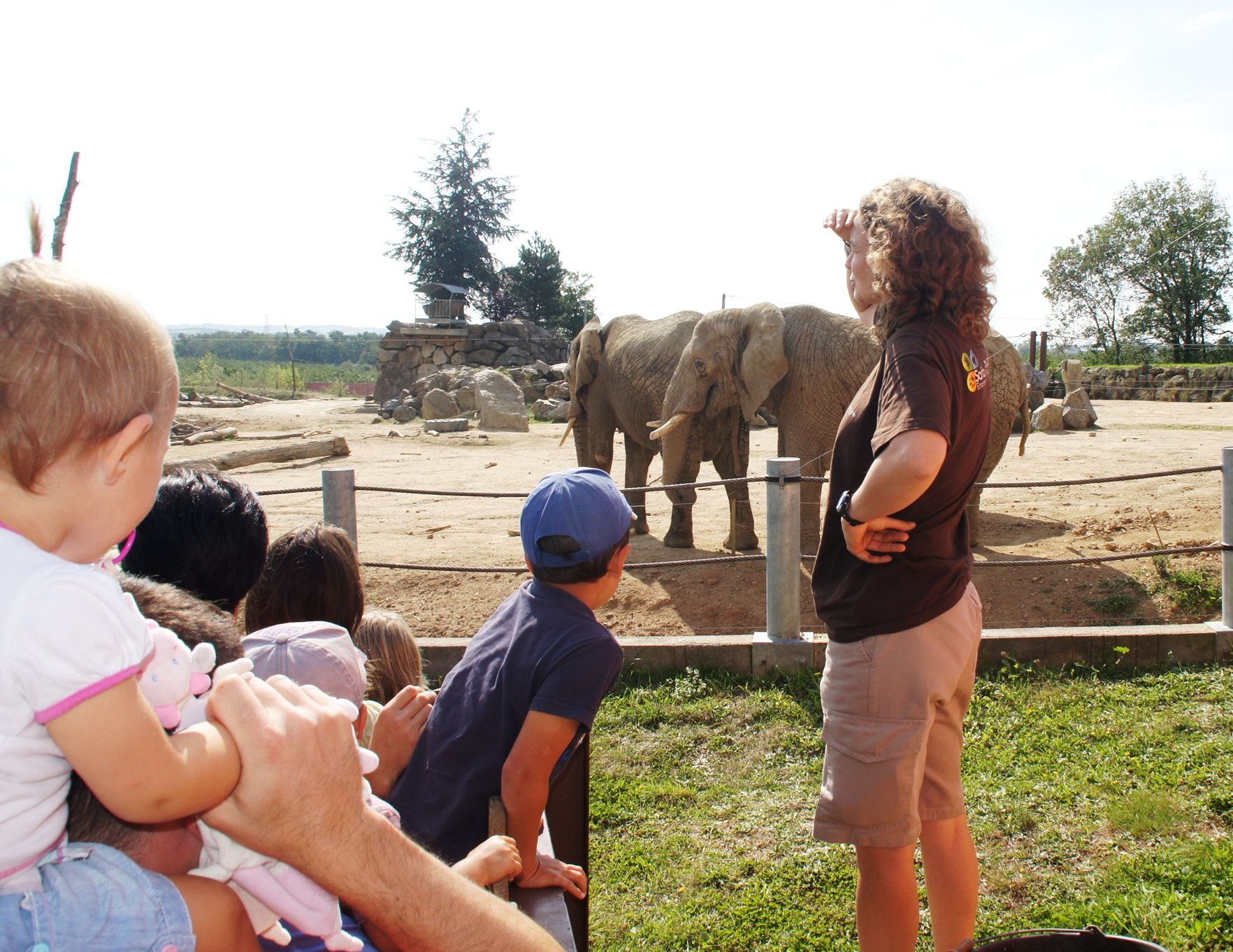 Peaugres détail